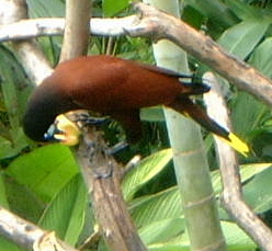 Montezuma Oropendola Psarocolius montezuma, at Rancho Naturalista, Costa Rica. My image, February 2006 jimfbleak 06:52, 10 March 2006 (UTC)